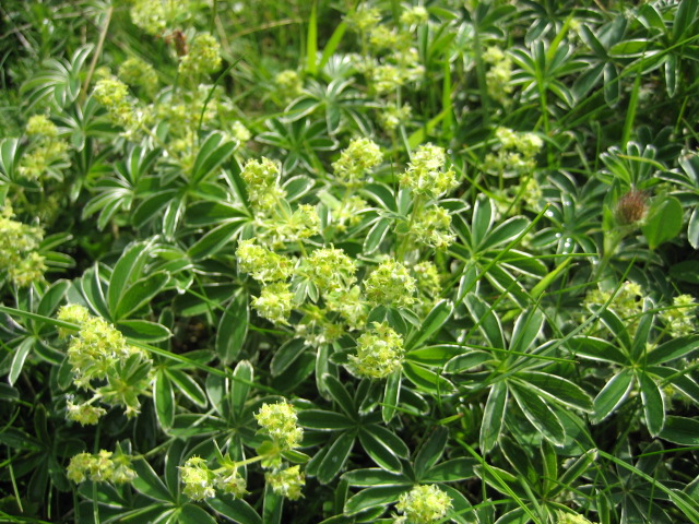 Alchemilla alpina, Écrins national park, French Alps